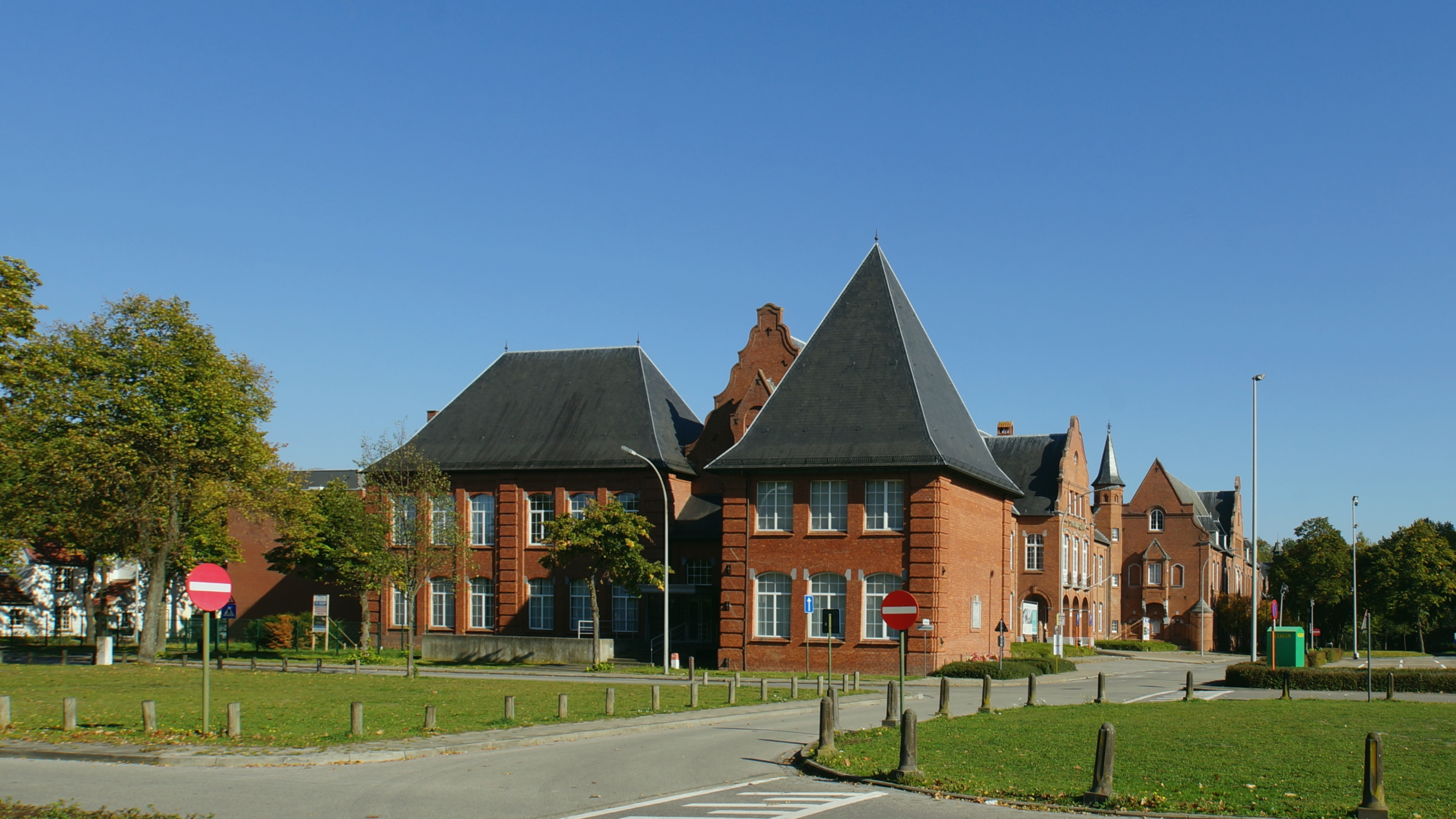 Former girls' school (side view - side Margarethalaan) (Winterslag) - Oeuvre of architect Adrien Blomme